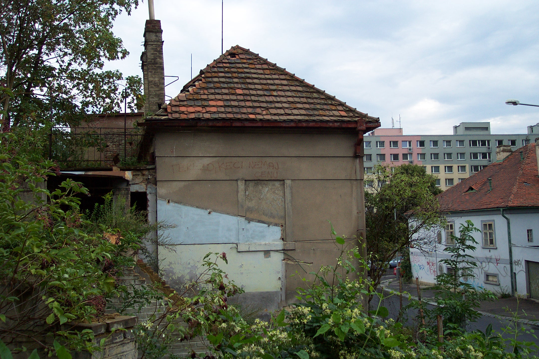 Ruins of Buďánka colony in Prague-Smíchov, CZ